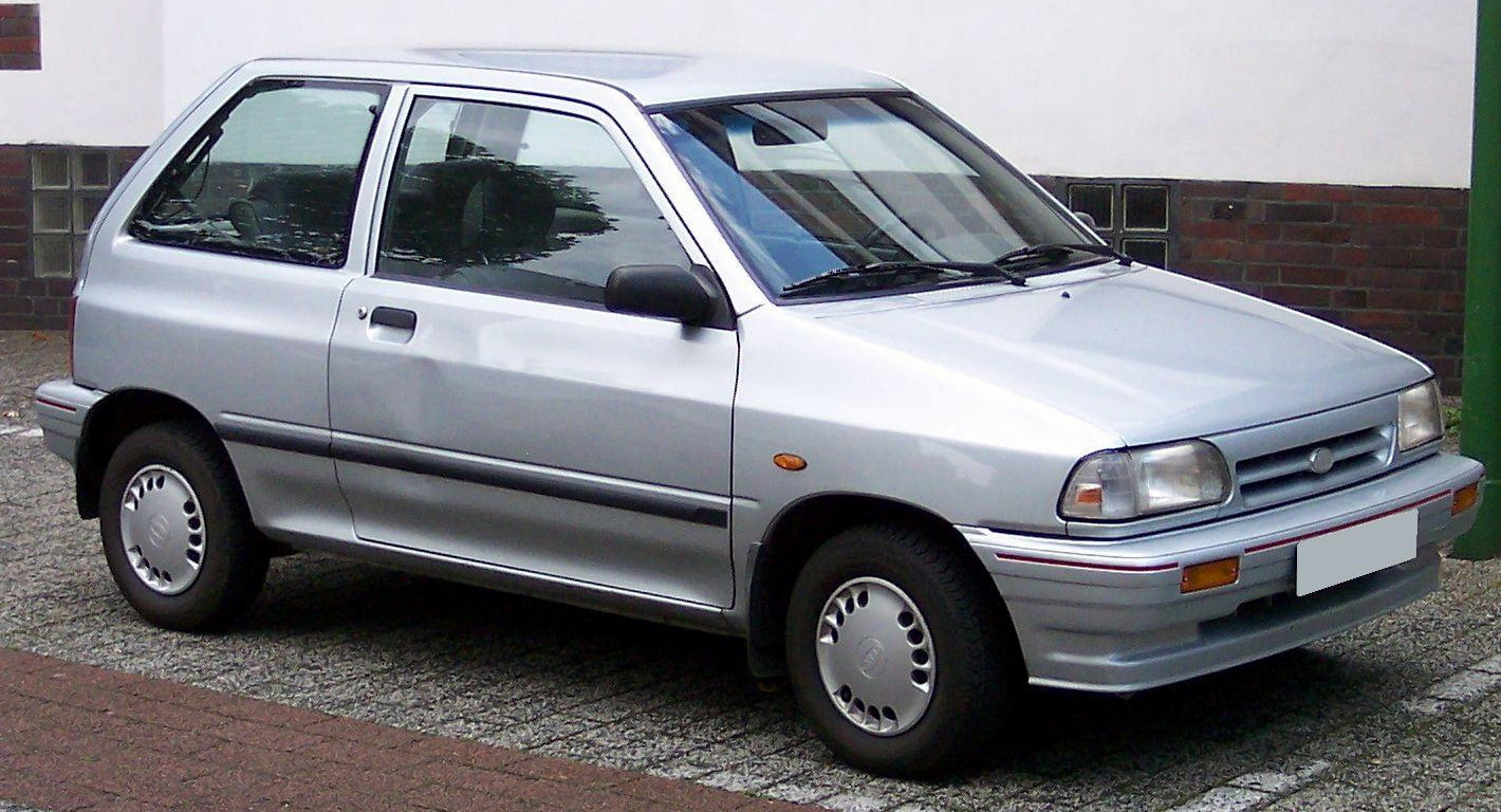 Kia Pride